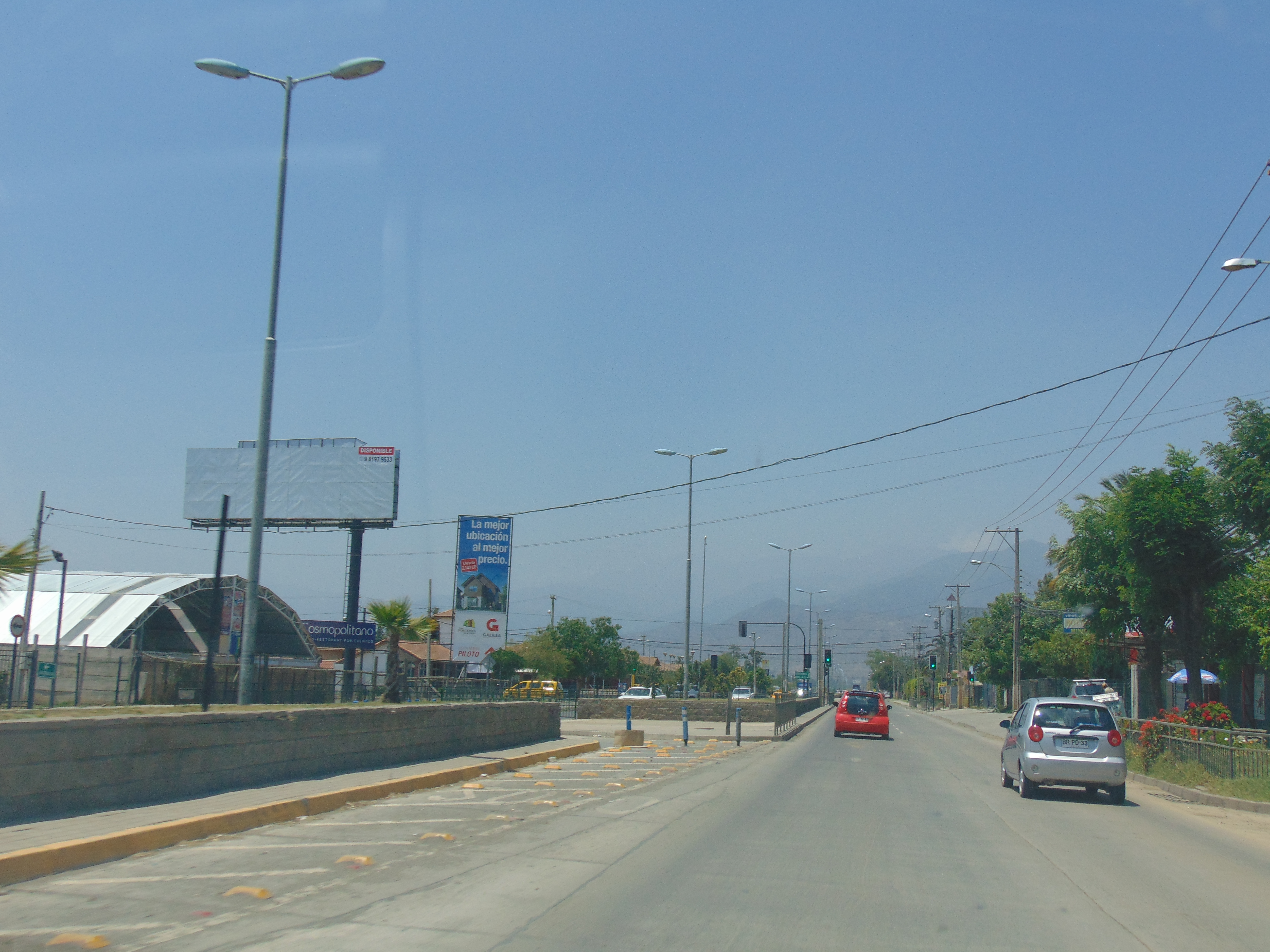 San Juan Avenue, Sanchina zone